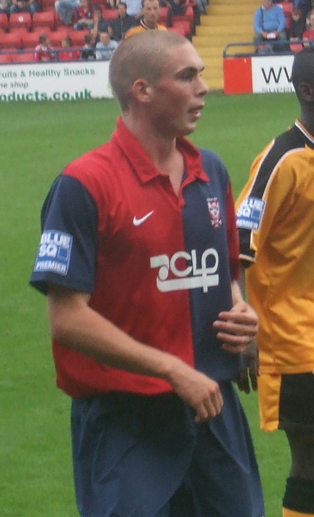 Richard Brodie playing for York City against Woking at Bootham Crescent, York on 6 September 2008